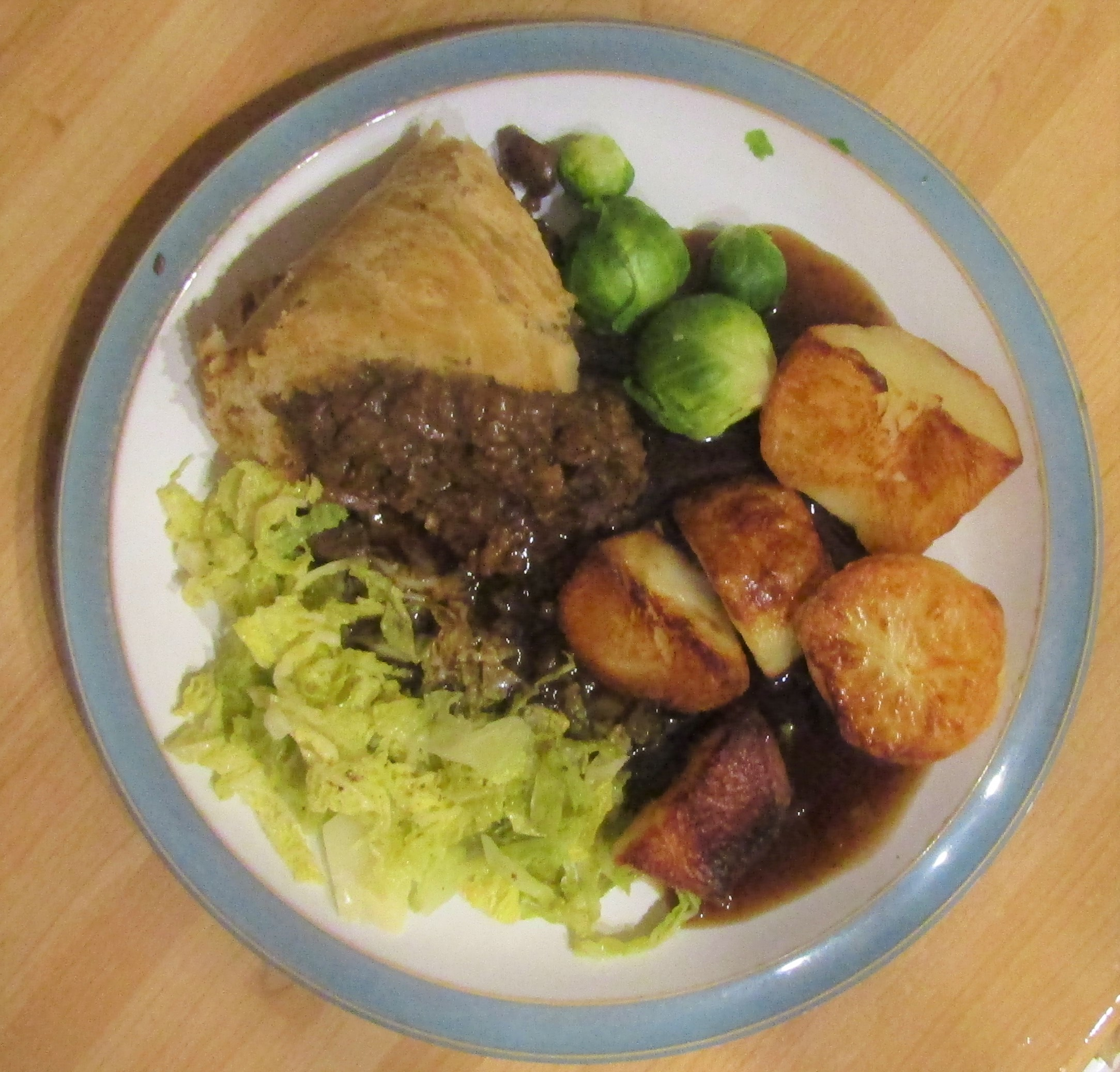 A plated meal of steak and kidney pudding, cabbage, sprouts and roast potatoes prepared in a kitchen in the village of Trimingham, Norfolk, England.